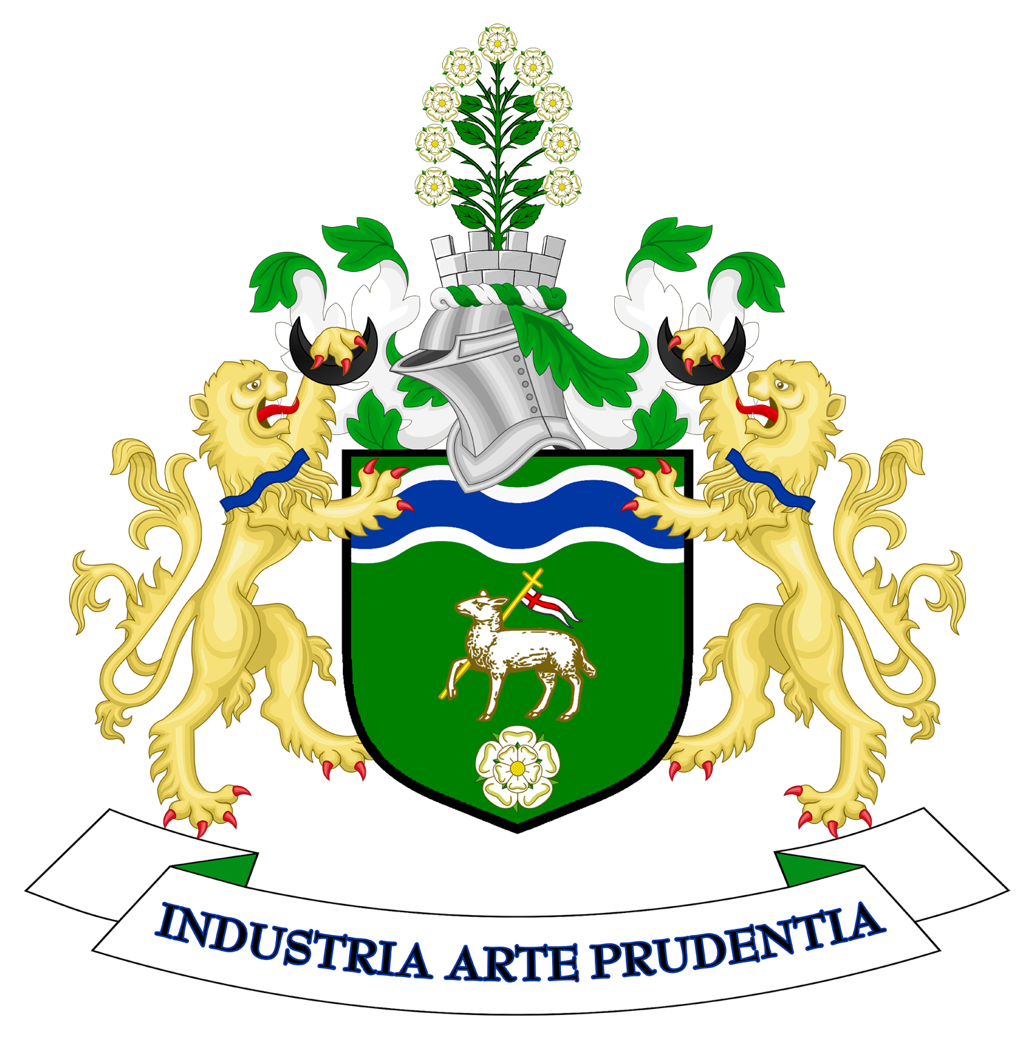 The Coat of arms of Calderdale Metropolitan Borough Council, the local government authority for the Metropolitan Borough of Calderdale, in West Yorkshire, England. The blazon is:ARMS: Vert a Paschal Lamb proper supporting over tne shoulder a Cross Staff Or flying therefrom a forked Pennon of St. George between in chief a Bar wavy Argent charged with a Barruret wavy Azure and in base a Rose Argent barbed and seeded proper.CREST: On a Wreath Argent and Vert out of a Mural Crown a Rose Tree of nine branches proper each terminating in a Rose Argent barbed and seeded proper.SUPPORTERS: On either side a Lion Or gorged with a collar wavy Azure and holding aloft in the interior forepaw a Crescent Sable.